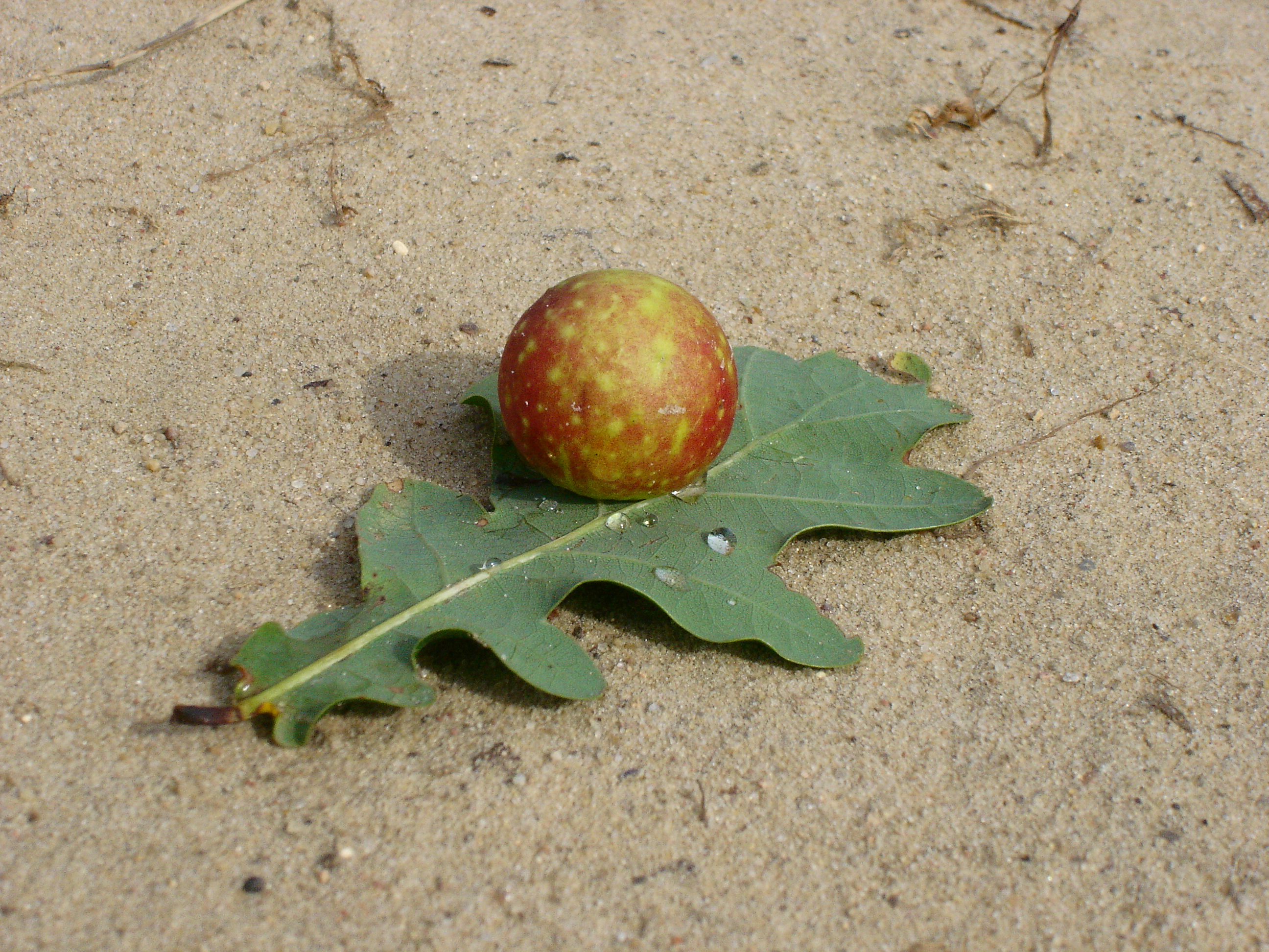 A gall on an oak leaf, found on a country lane tree-lined with oaks in Brandenburg. This gall ist from the gall wasp Cynips quercusfolii.